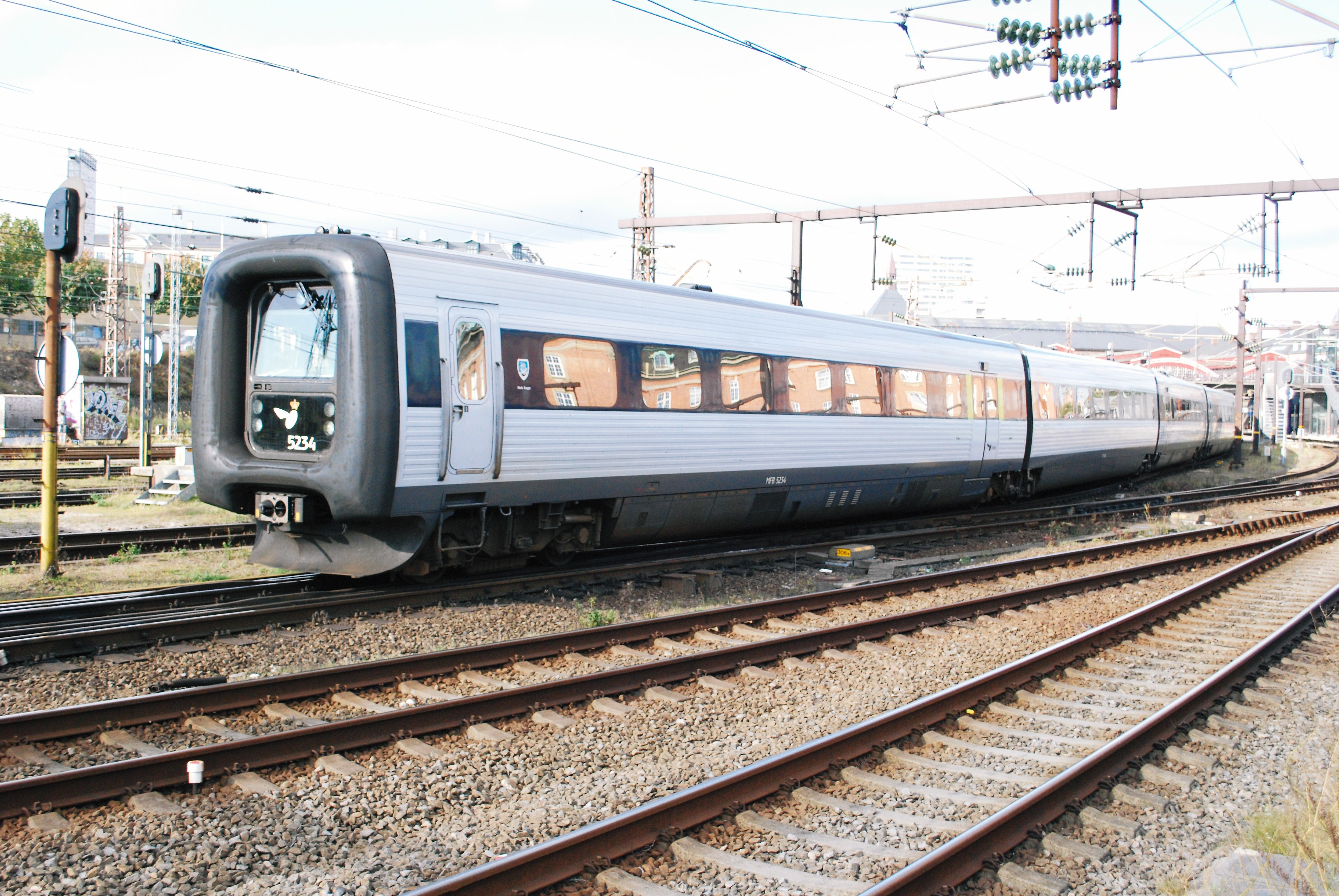 DSB ABB/Scandia "IC3" 3-car dmu No.5234 at Kobenhavn, 10/09. Note the peculiar inflated rubber seal at the end of the driving car which provided a streamlined shroud when two or more units were coupled together, whilst the driver's console swung to one side to allow passage between units. Highly original idea. Same basic design as DSB IR4 emu and DSB/SJ "Oresund" emu's.